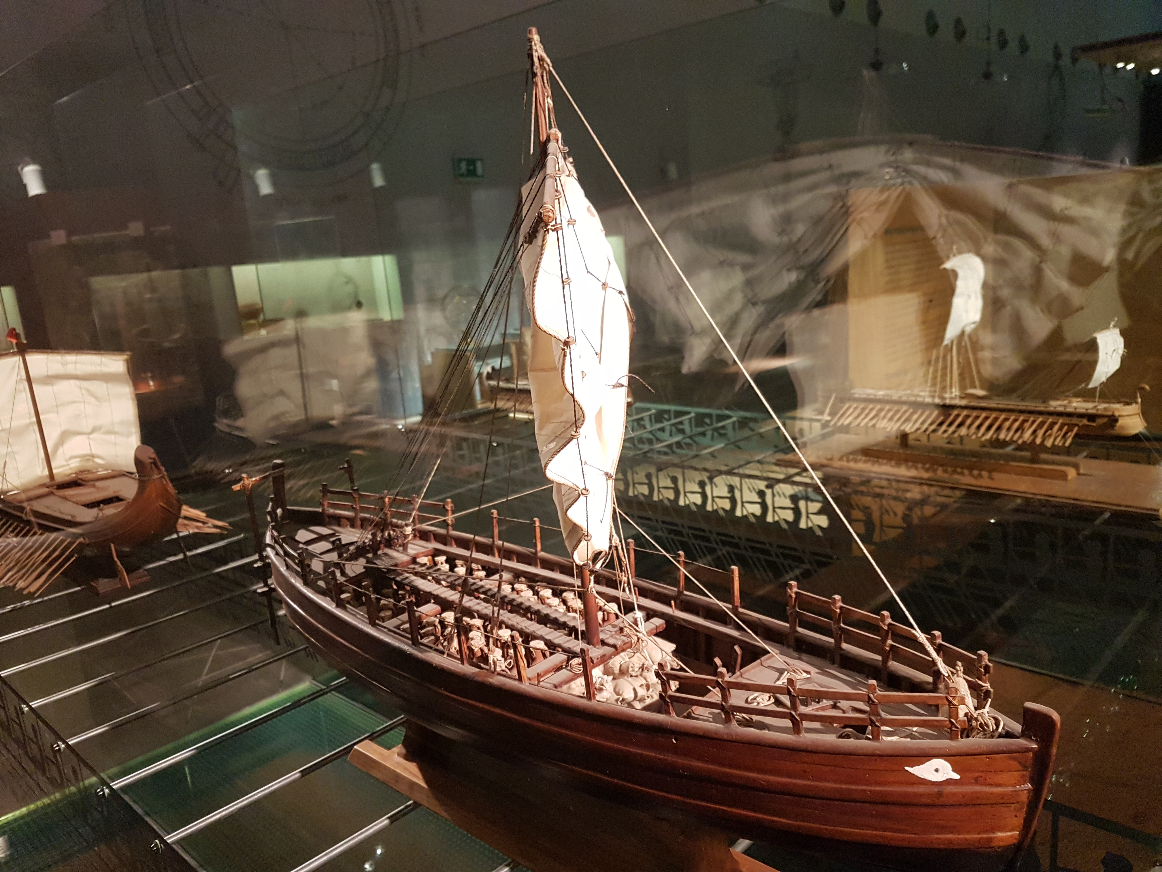 Kyrenia Olkas, 4th century BC (modelled after the Kyrenia shipwreck). Thessaloniki Technology Museum